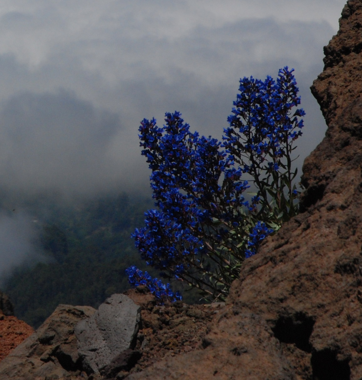 Habitus of Echium gentianoides, Near Fuente Nueva, La Palma, Spain